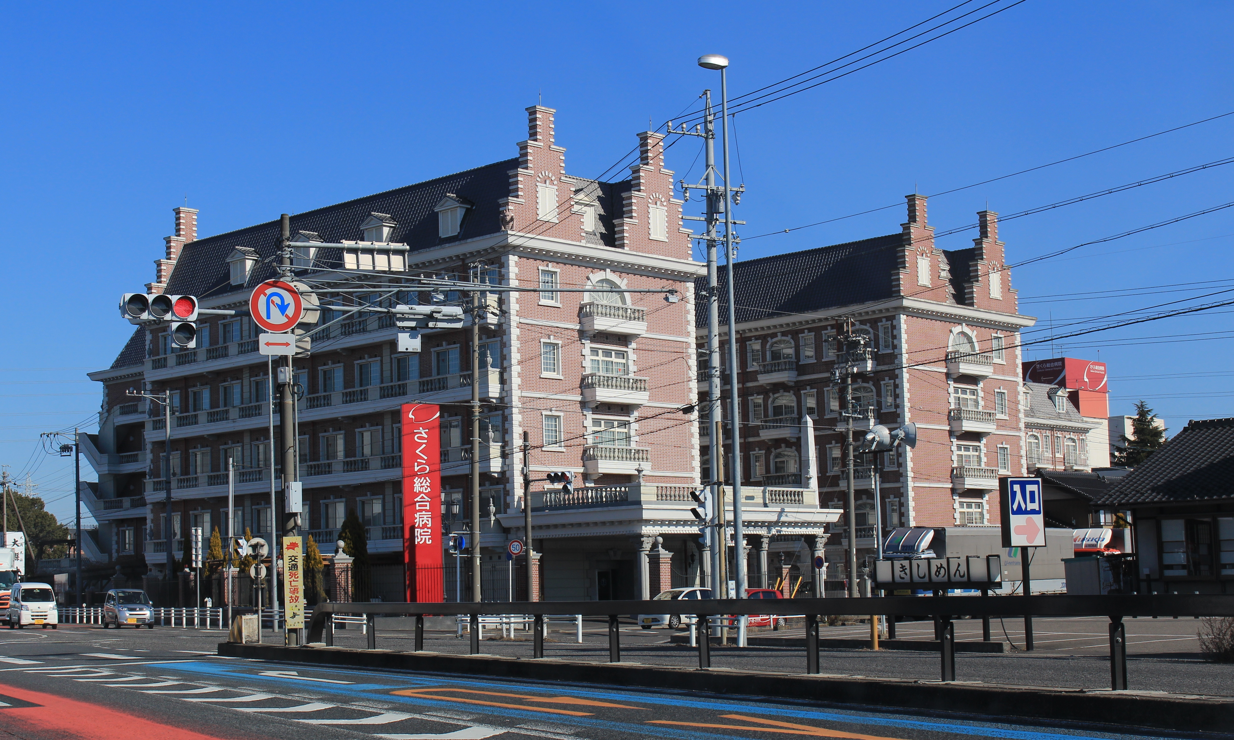 Sakura General Hospital in Ōguchi, Aichi prefecture, Japan.